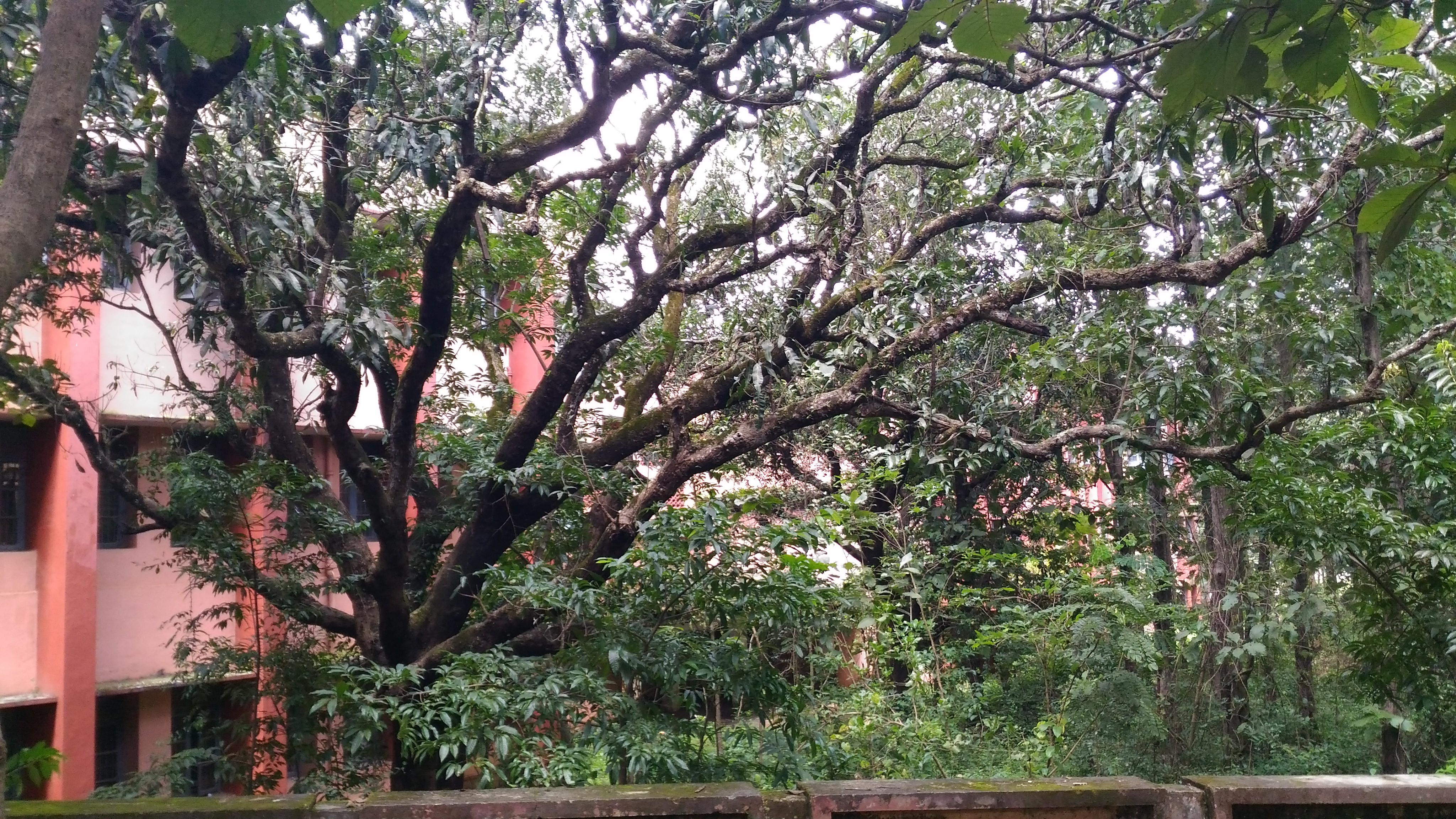 Government_college_kasaragod- Biodiversity park